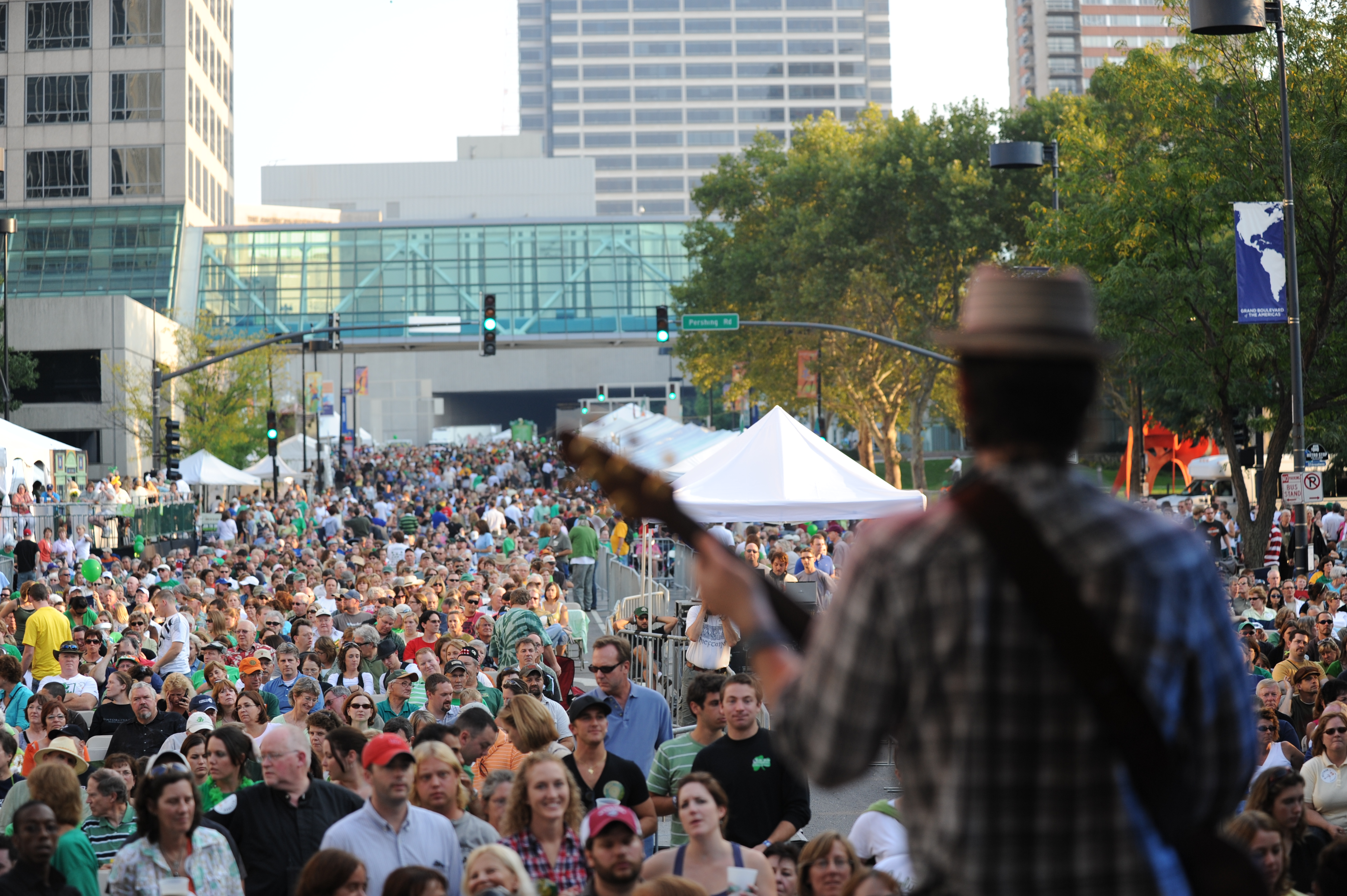 Scythian plays at Kansas City Irish Fest in 2009.